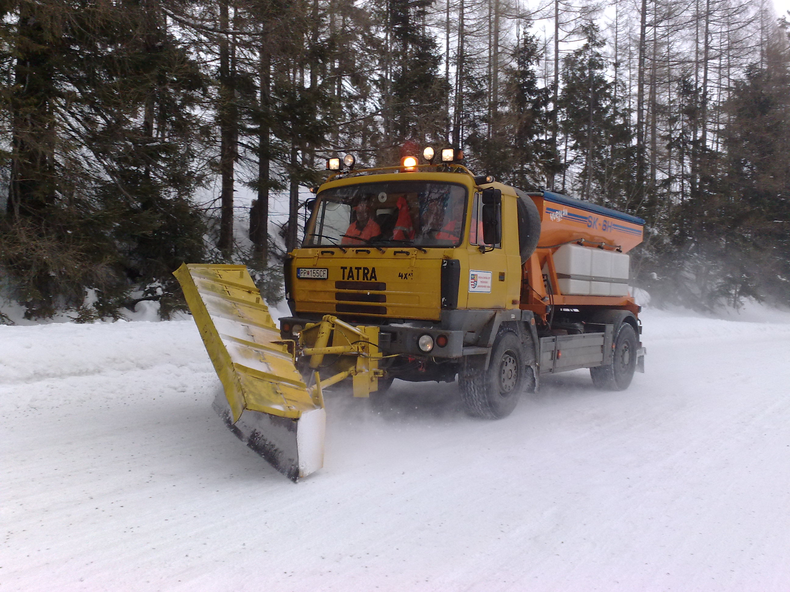 Tatra 815 4x4 snow plough